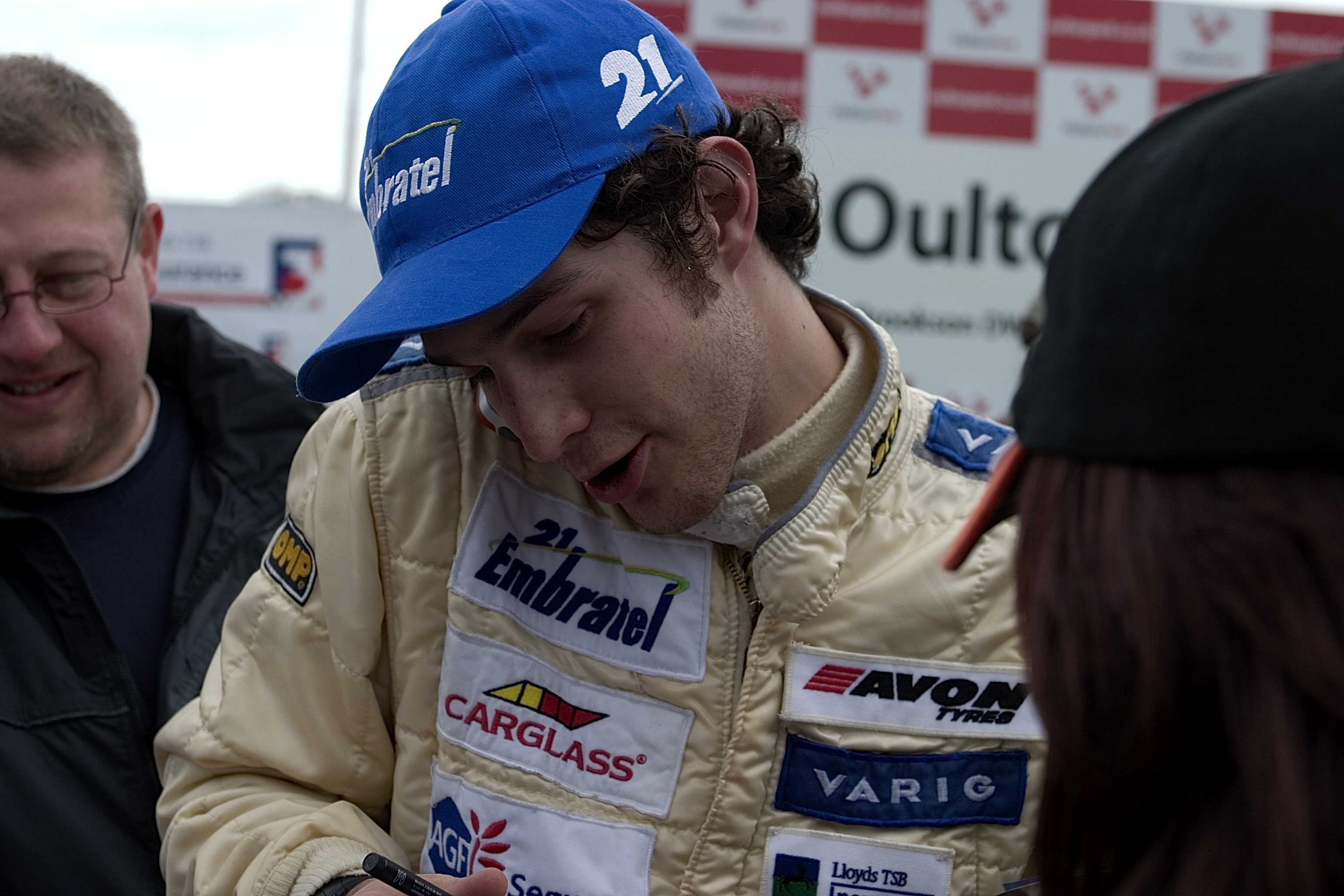 Another Bruno Senna autograph for fans at Oulton Park - photo by Angus Matheson